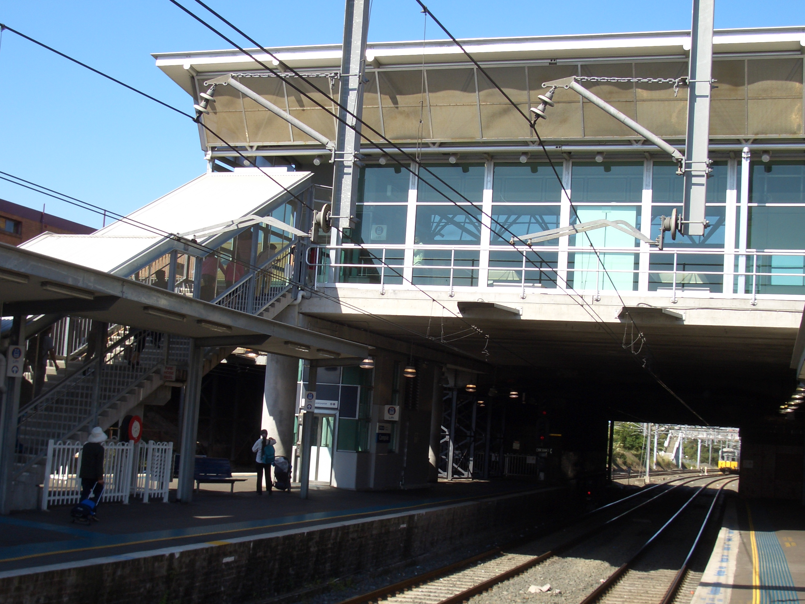 Campsie Railway Station